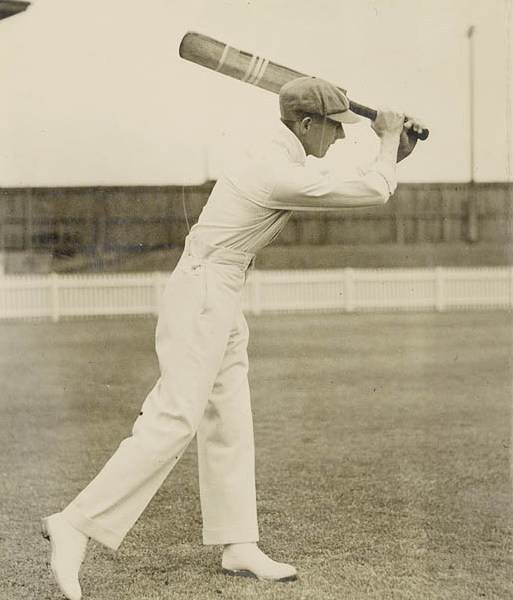 Archie Jackson, Australian cricketer